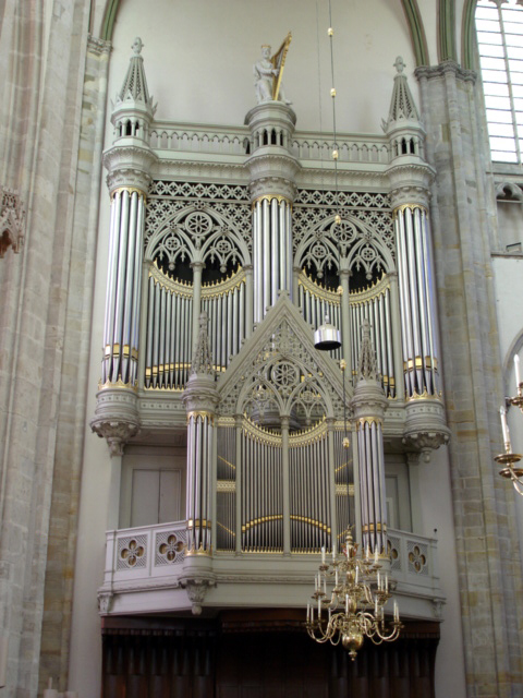 Organ of Utrecht Cathedral